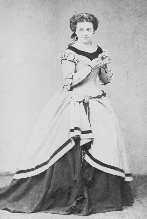 The German opera singer Sophie Stehle (1838-1921) as Marguerite in 'Faust' by Gounaud